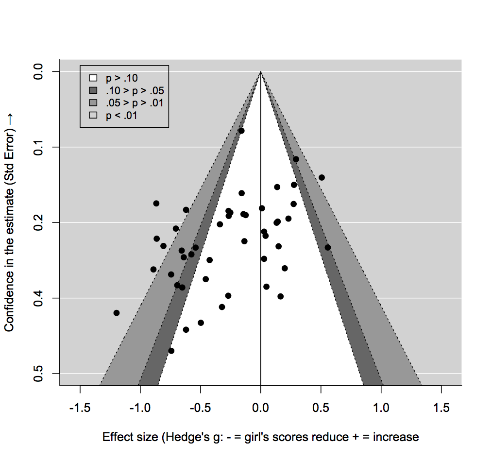 Recreation in R of a plot based on original work by Flore, P. C., & Wicherts, J. M. (2015). Does stereotype threat influence performance of girls in stereotyped domains? A meta-analysis. J Sch Psychol, 53(1), 25-44.